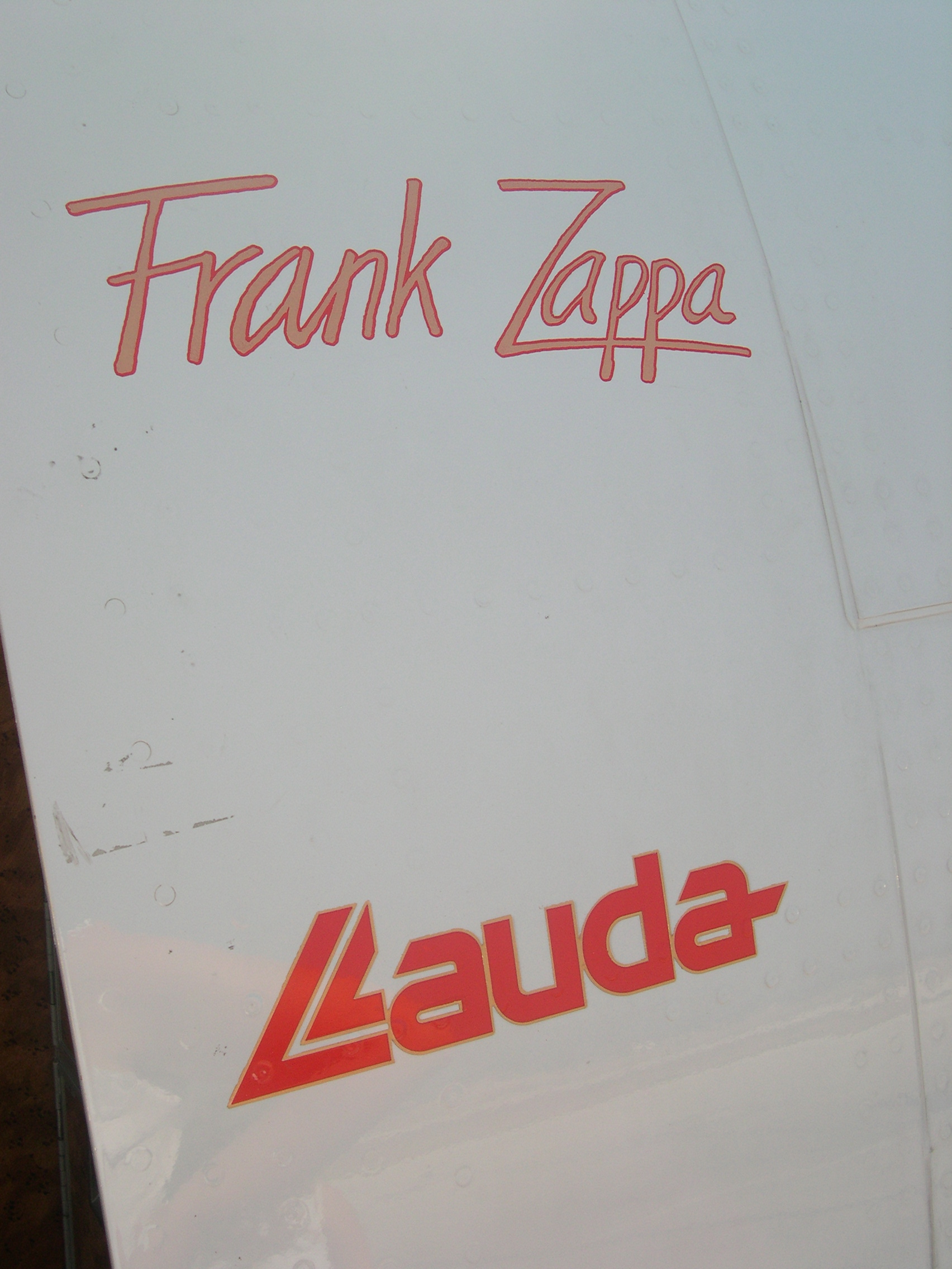 Inscription at cabin door of Lauda Air aircraft OE-LNR "Frank Zappa"